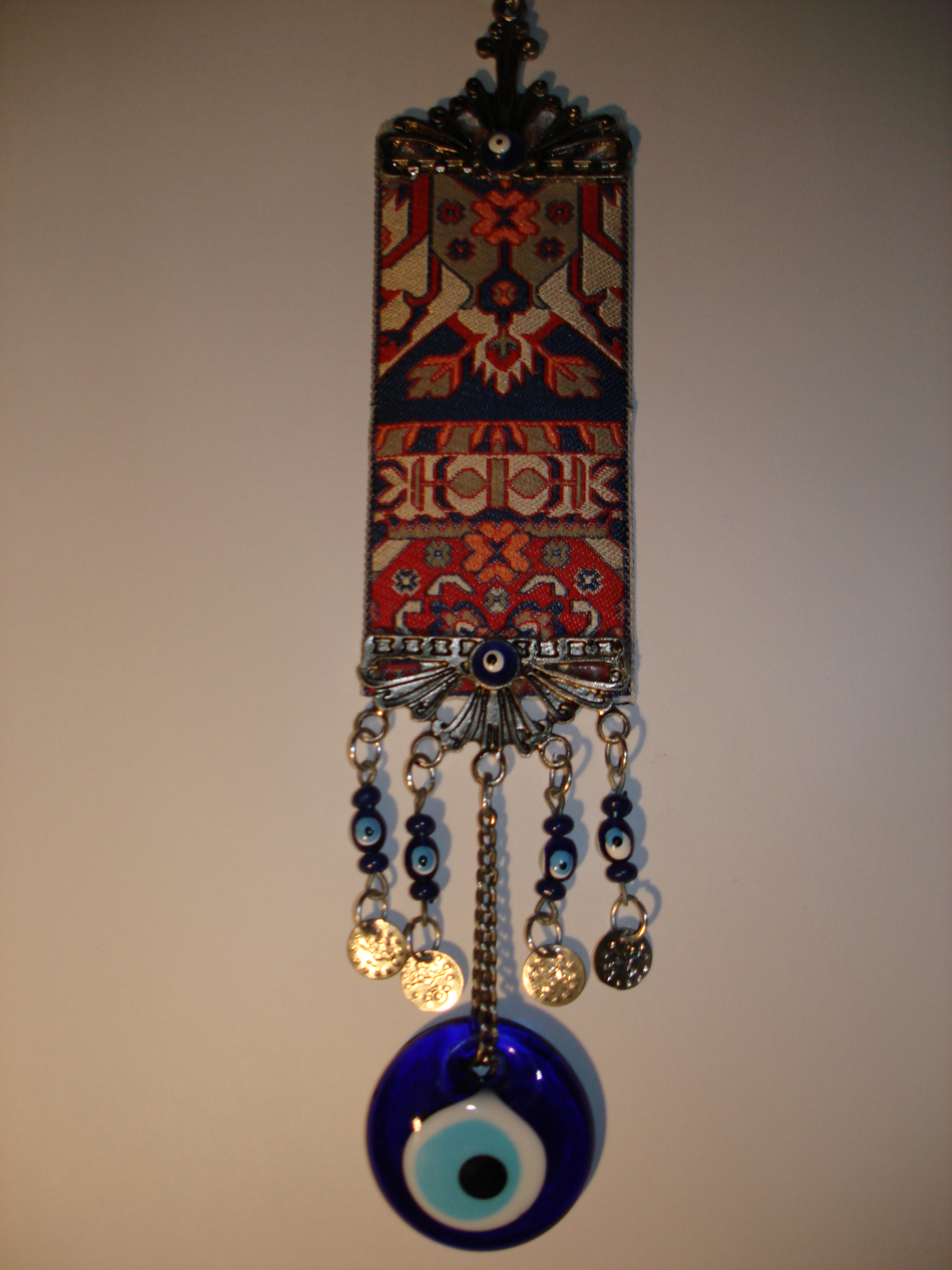 Amulet with Turkish Eye used to ward off the evil eye.